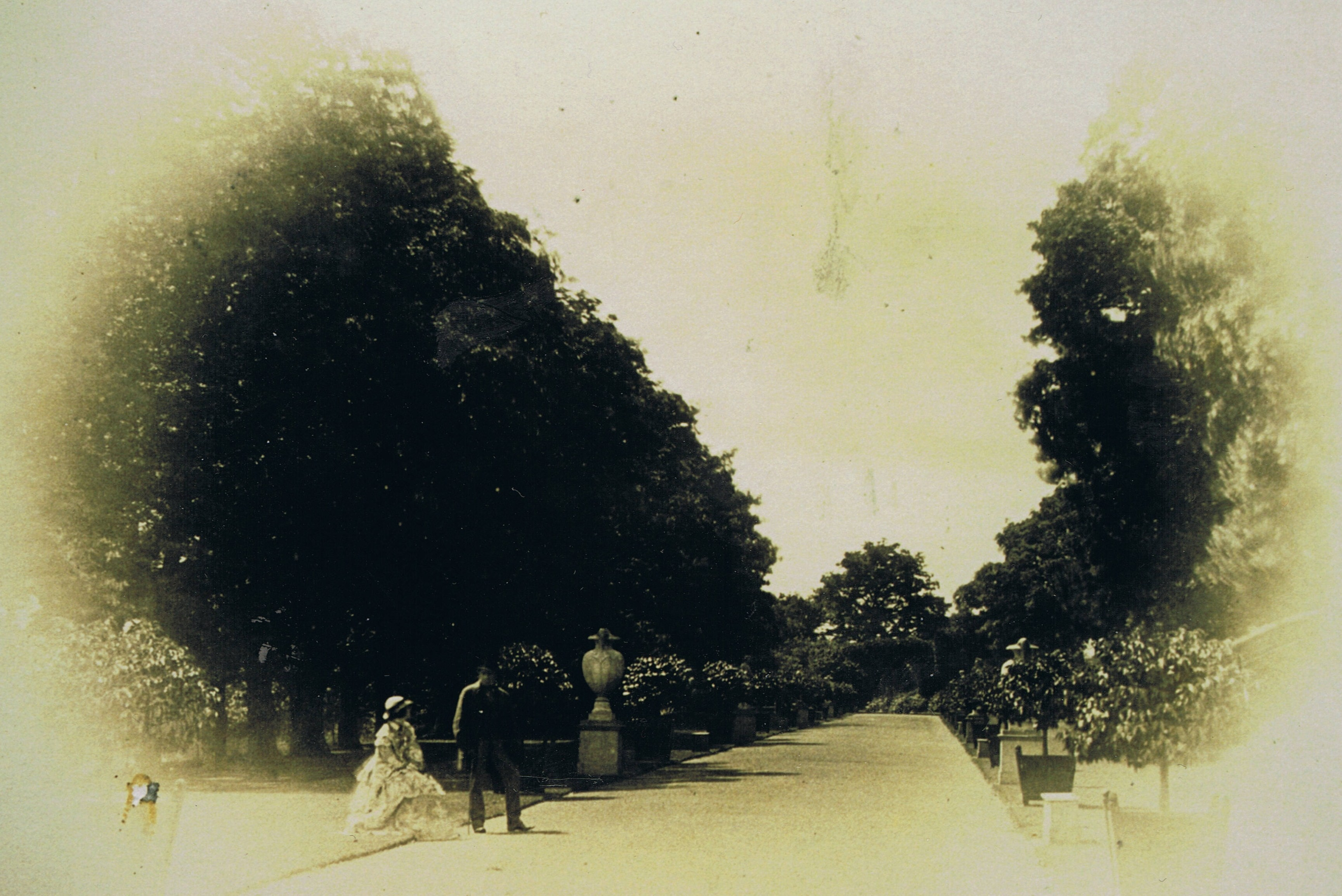 My scan or scan of photo (R. de SalisRodolph (talk) 18:58, 26 May 2014 (UTC)) of a terrace at Portnall Park, Surrey, UK, late 1800s.